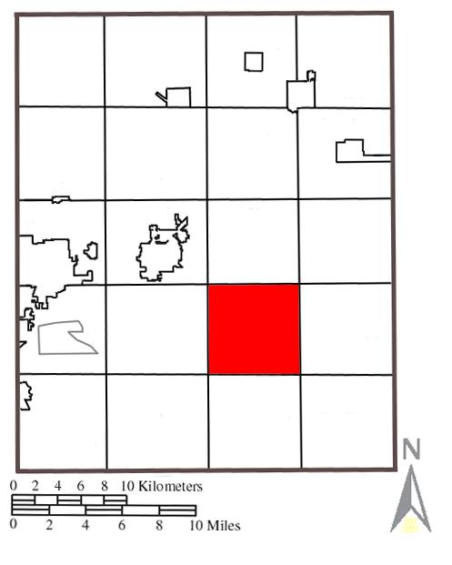 Map of Portage County, Ohio with Edinburg Township highlighted.